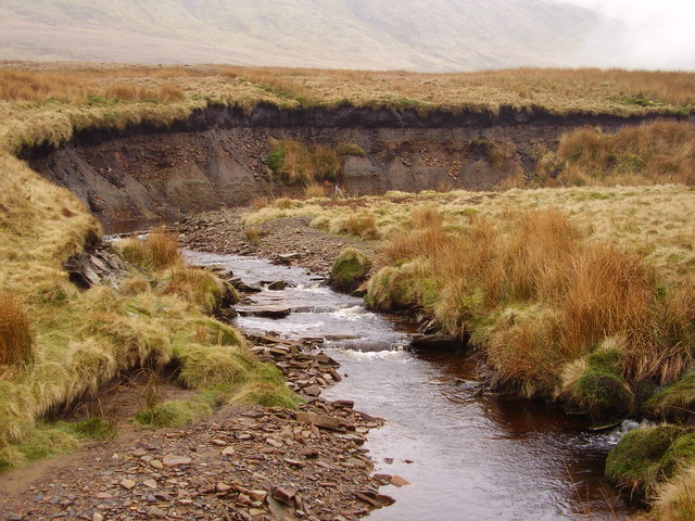 Bend in the River Ashop. The River Ashop meanders through the less steep parts of its valley, with the northern escarpment of Kinder Scout behind.